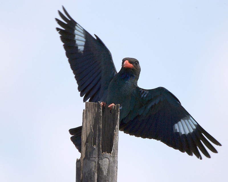 Dollar bird landing Dollarbird Eurystomus orientalis Changi Village, Singapore 22nd. April 2007 Alternative names: Broad-billed Roller, Dark Roller, dollar roller, Oriental Broad-billed Roller, Oriental Dollarbird